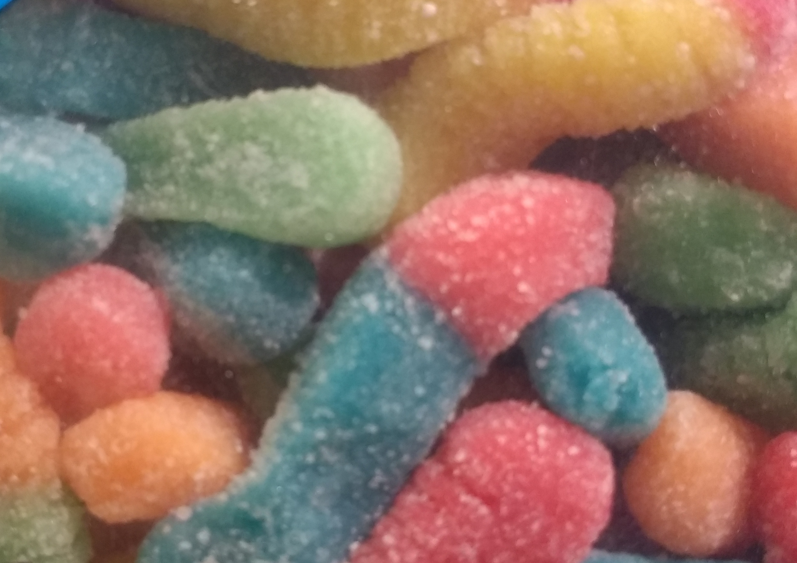 Trolli Sour Brite Crawlers gummi worms.